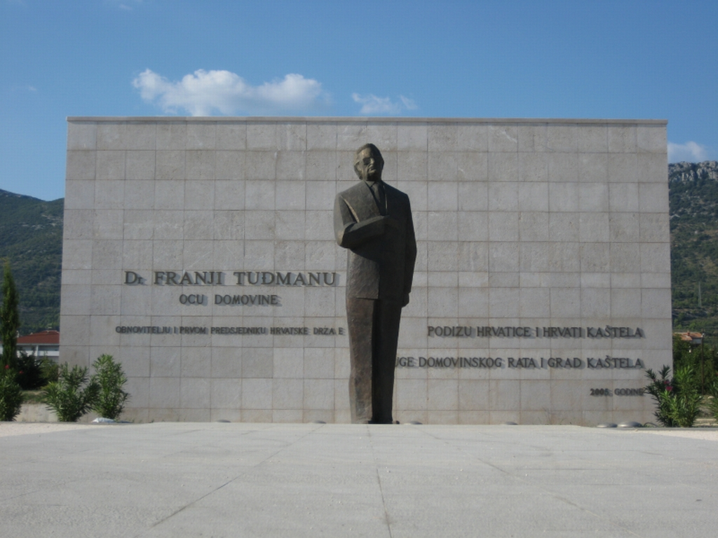 Monument in a tribute of dr. Franjo Tuđman in Kašteli, Croatia